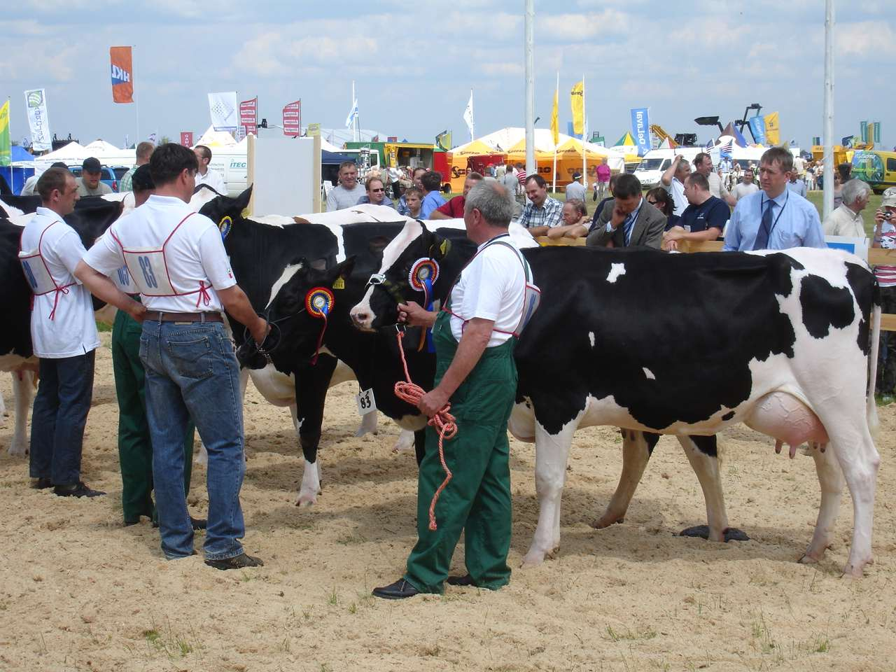 The spring cattle exhibition in Nowa Wieś.